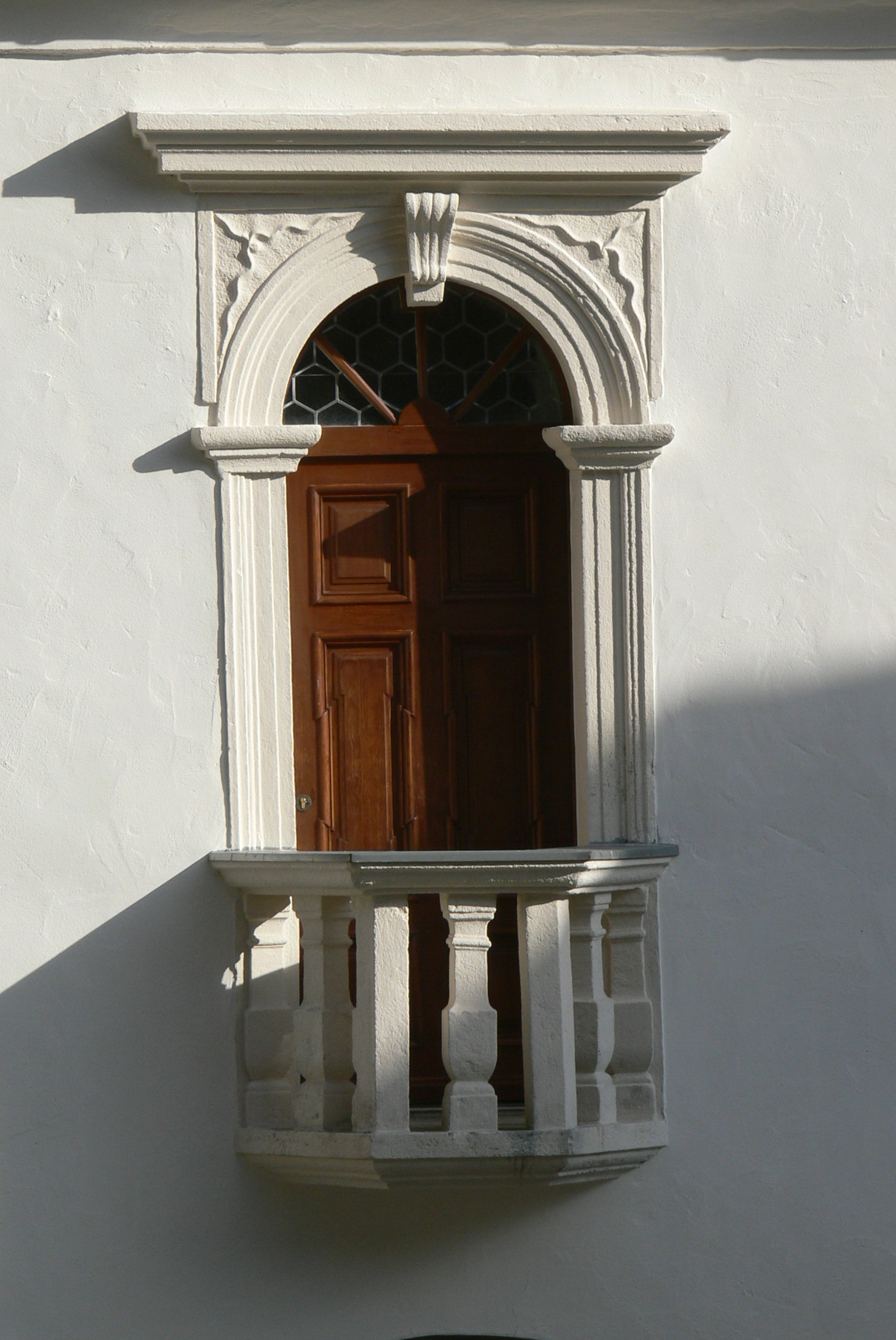 St.Wolfgang am Stein ( Schlägl/Upper Austria ). Saint Wolfgang church ( 1644 ): Outside pulpit.